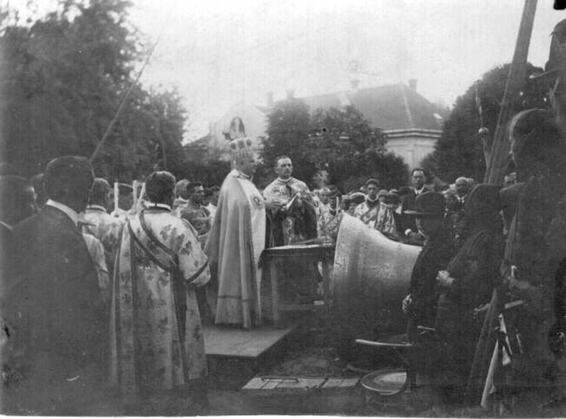 The first bishop of the Diocese of Hajdúdorog, István Miklósy consecrates the cathedral's renovated bell on the 1st of October, 1927.